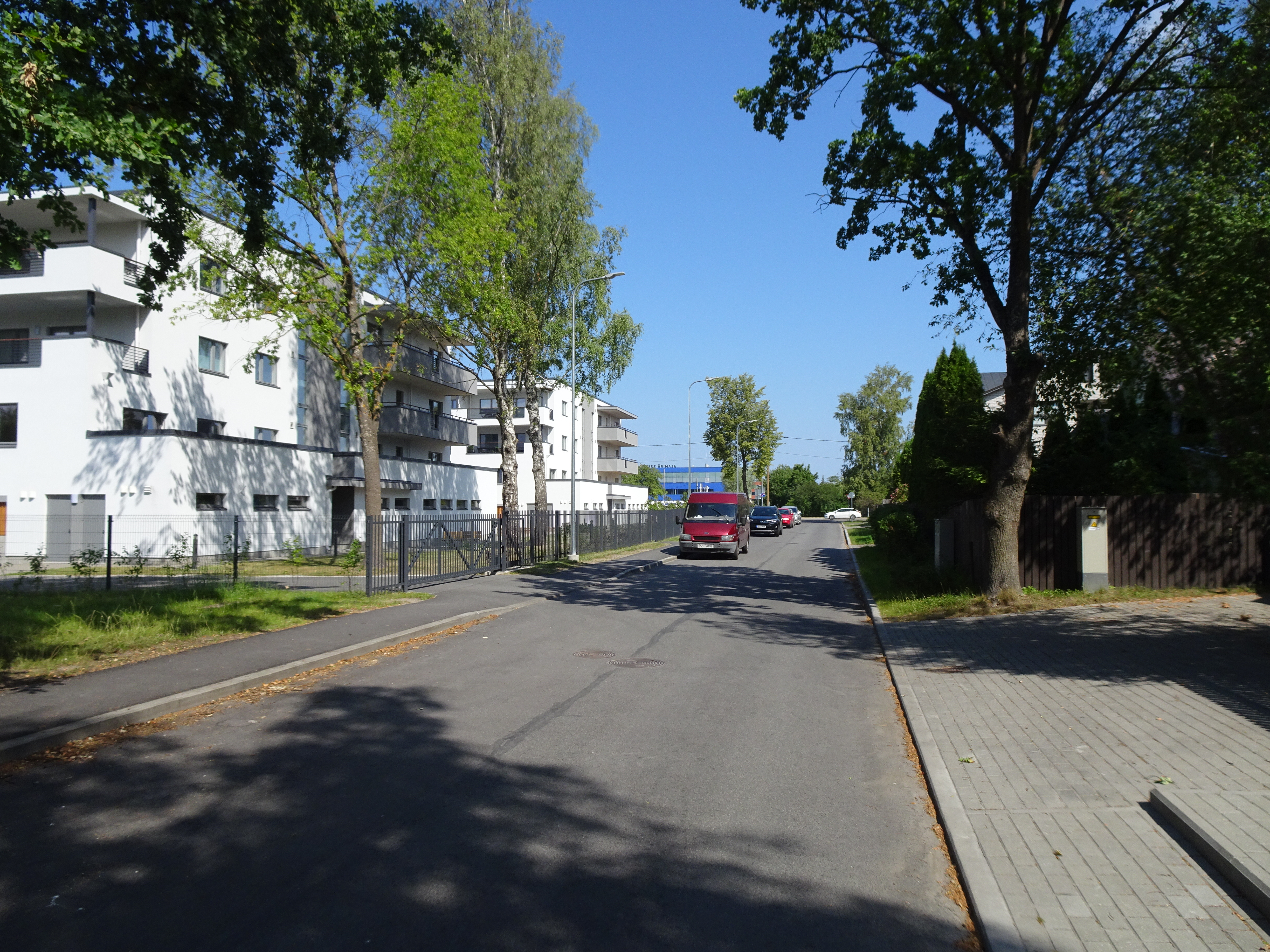 Hane Street in Tallinn, Estonia